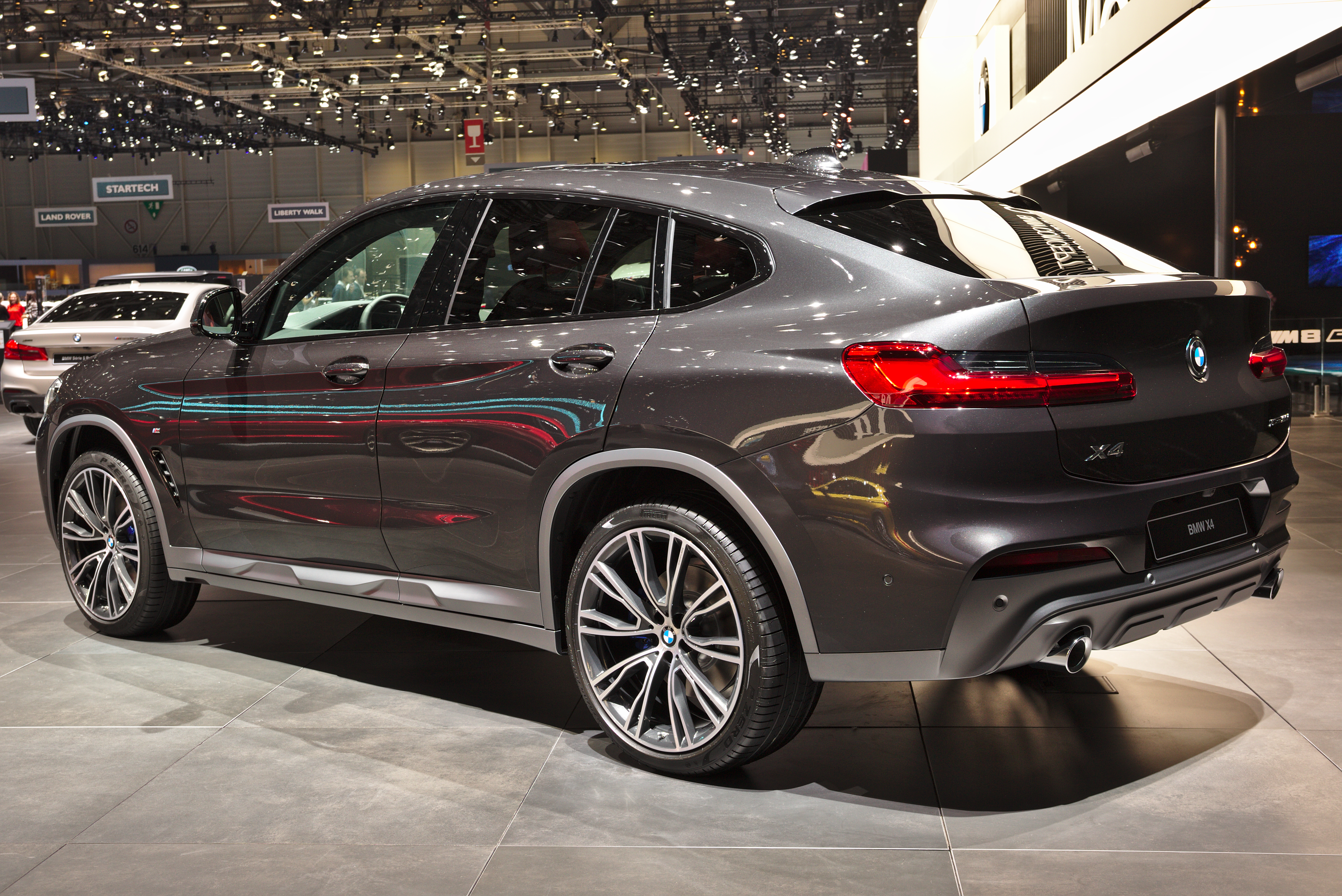 BMW X4 at Geneva Motorshow 2018